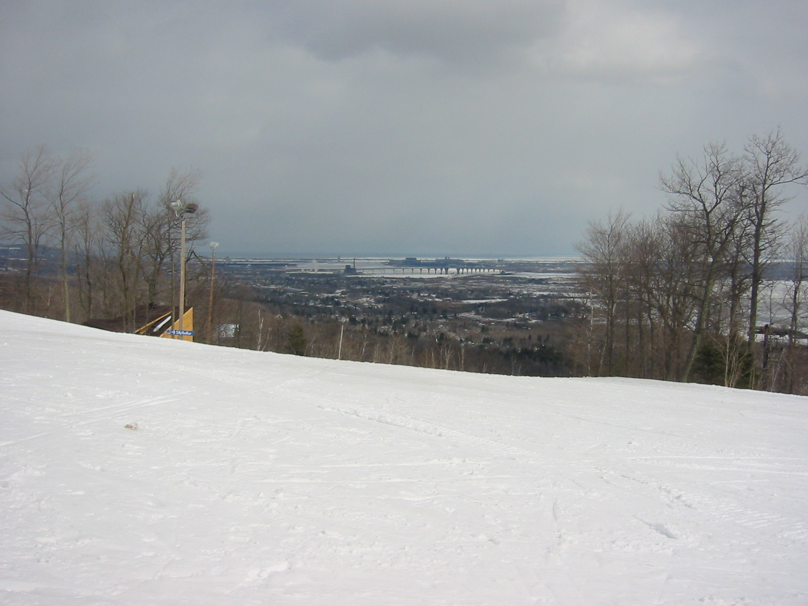 A view from the top of Spirit Mountain Ski Area — in Duluth, looking northward to St. Louis Bay, in Minnesota. The closer bridge is the Richard I. Bong Memorial Bridge, and distant one is the John A. Blatnik Bridge.